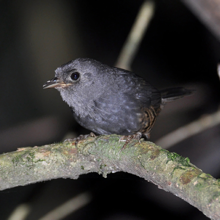 Scytalopus pachecoi photographed in Rio Grande do Sul, Brazil, in January 2011.